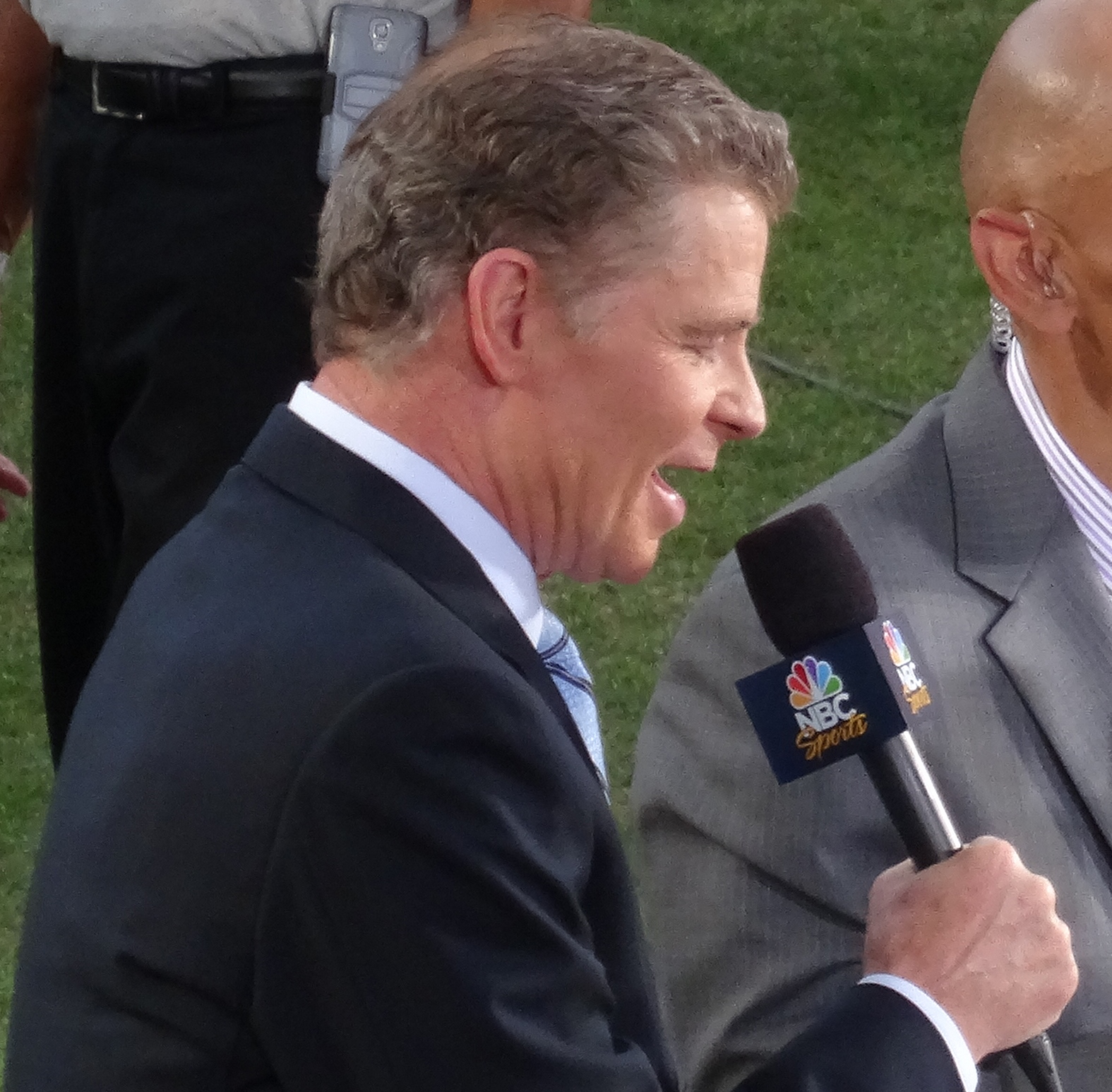 NBC Sports' Dan Patrick reports for Football Night in America at Denver's Sports Authority Field.